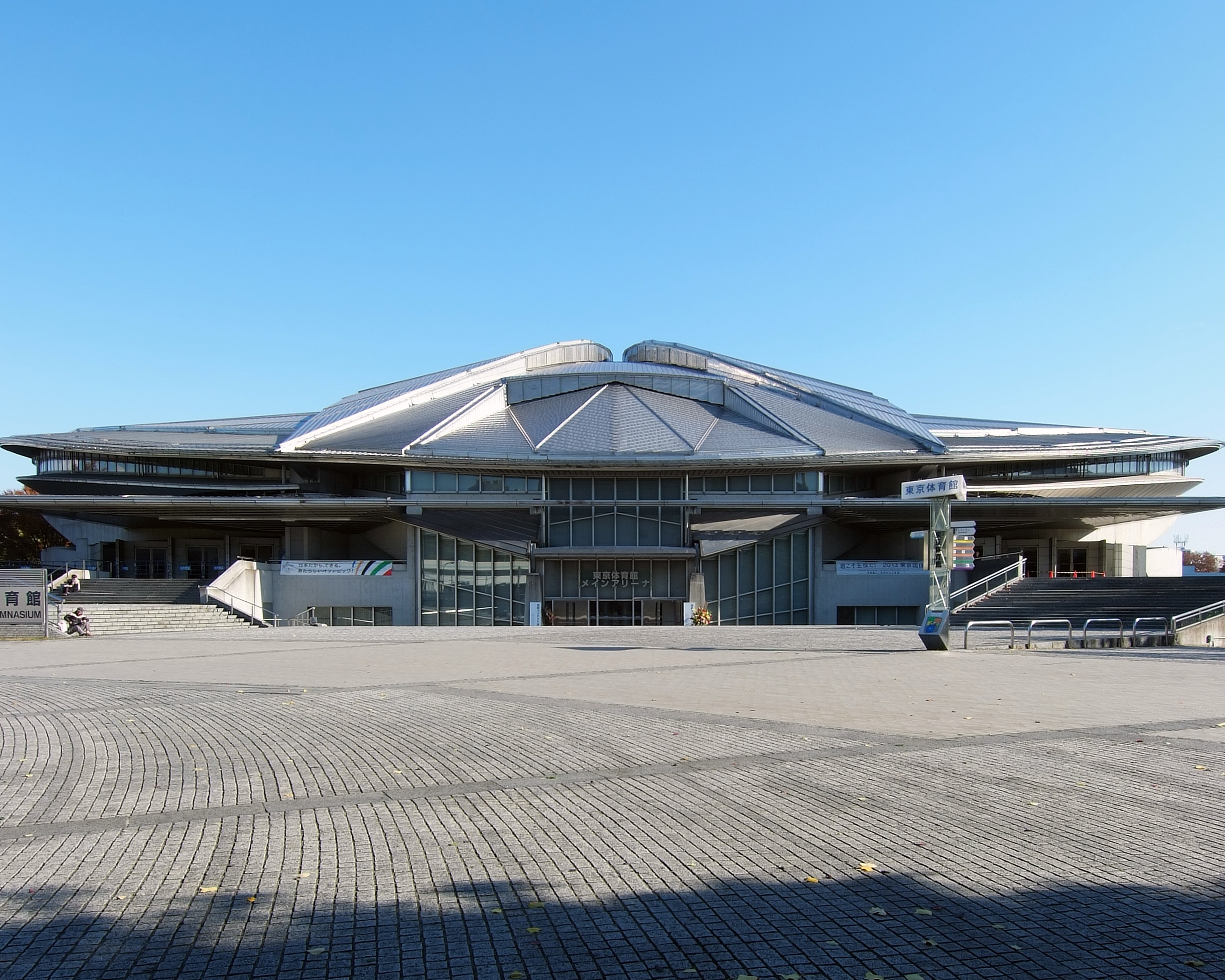 Tokyo Metropolitan Gymnasium, at Sendagaya Tokyo Japan, design by Fumihiko Maki in 1990.